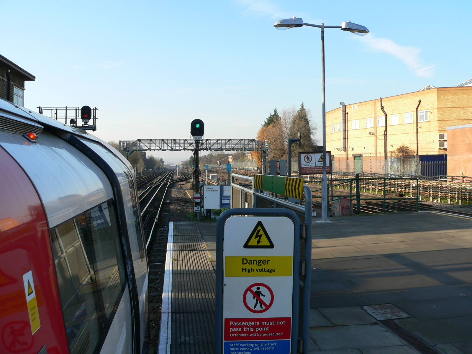 Looking north from the northern end of Willesden Green tube station on London Underground's Jubilee Line.